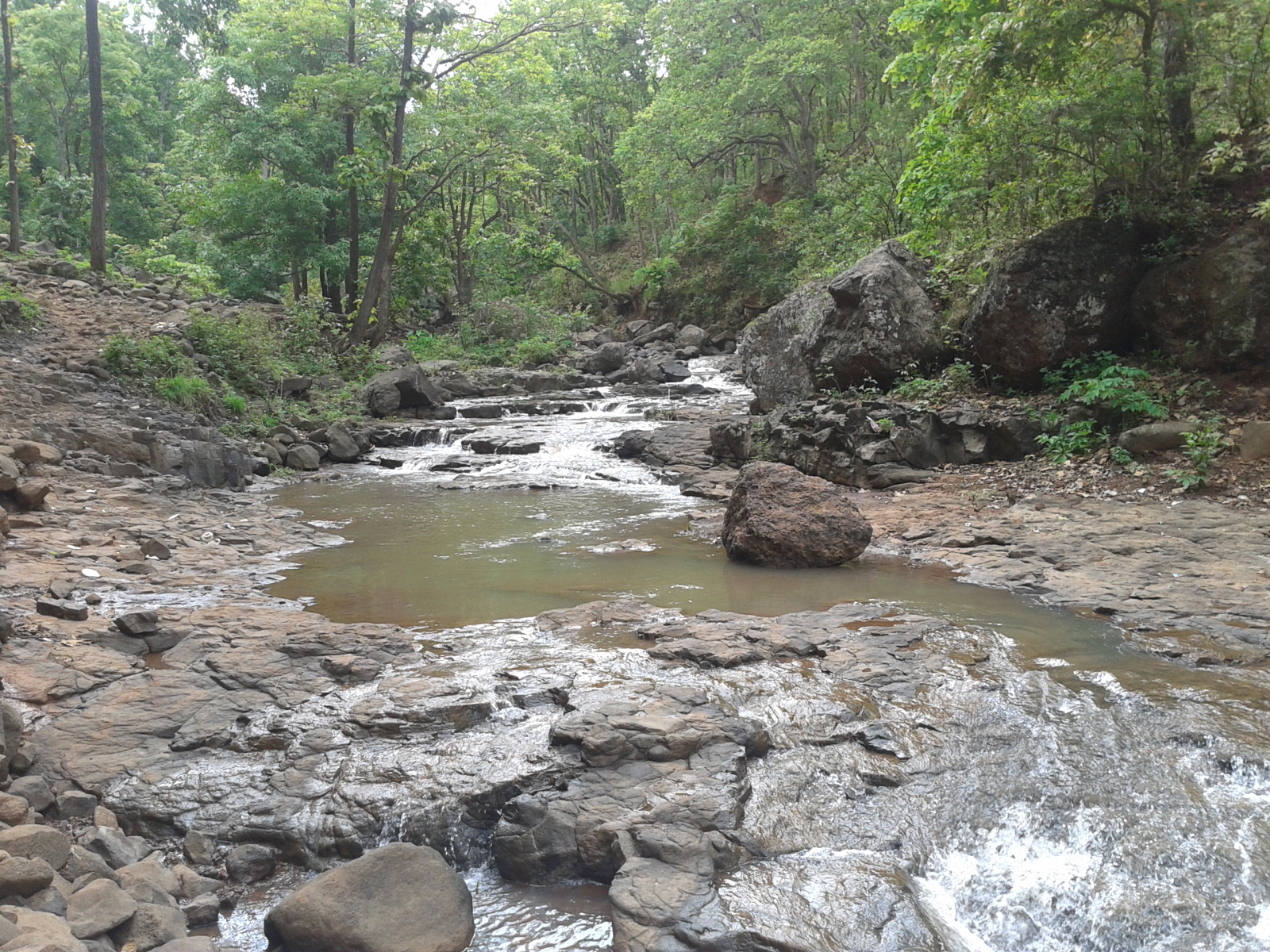 A beautifull Flora of Amarkantak Forest and Narmada river.